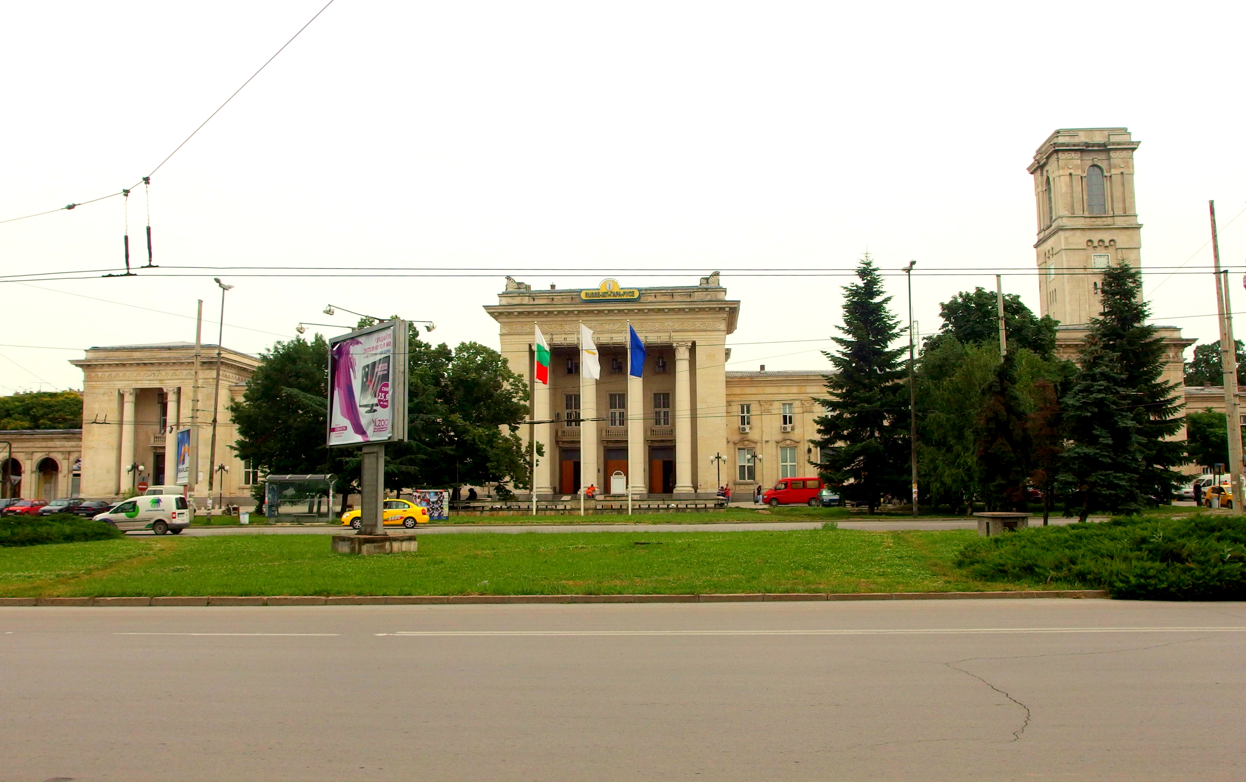 2014-06-25 in Rousse.